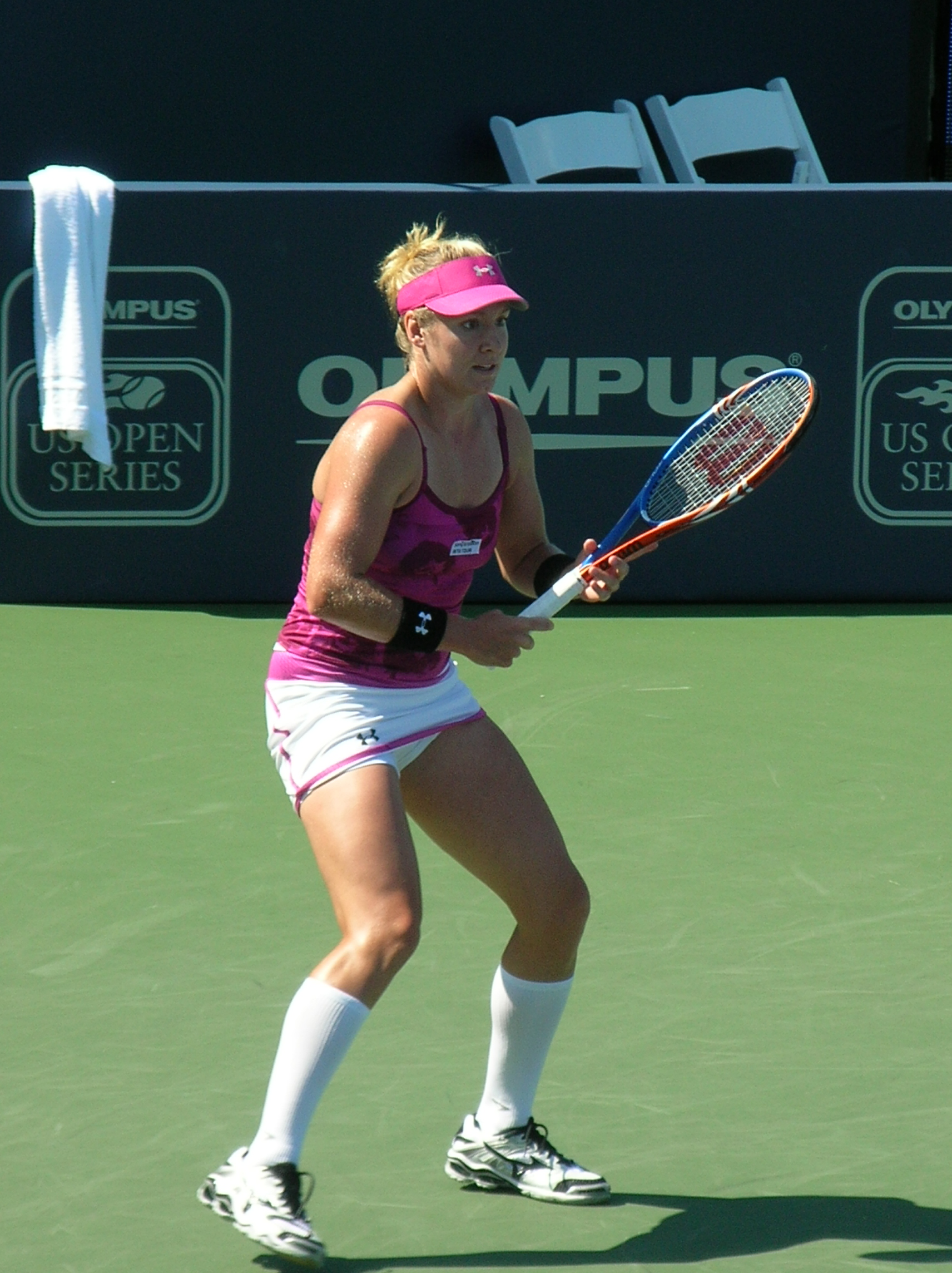 Bethanie Mattek-Sands in the second round of qualifying at the Bank of the West Classic at Stanford. She lost to Jamie Hampton 6-4, 6-3.